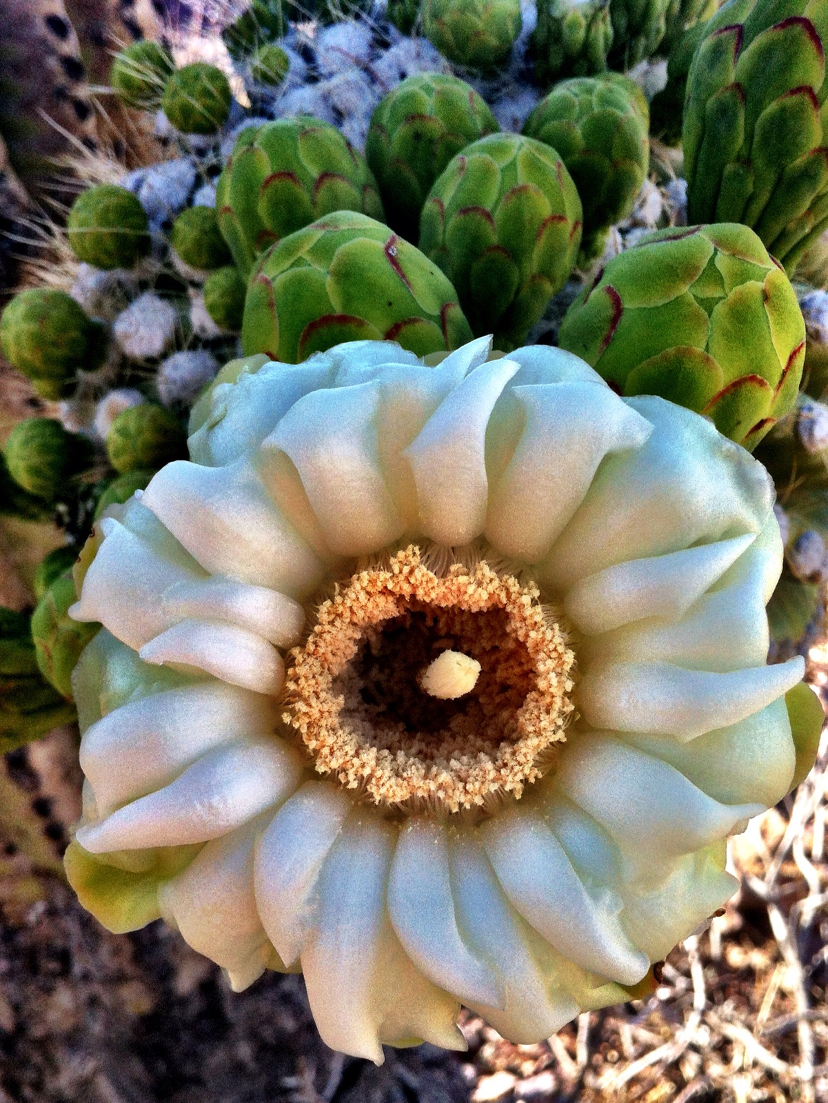 Carnegiea gigantea flower, Saguaro National Park, west of Tucson, Arizona. Most of the flowers are on the tops of 7-10 m high cactus; this one was on a bent arm hanging low to the ground.